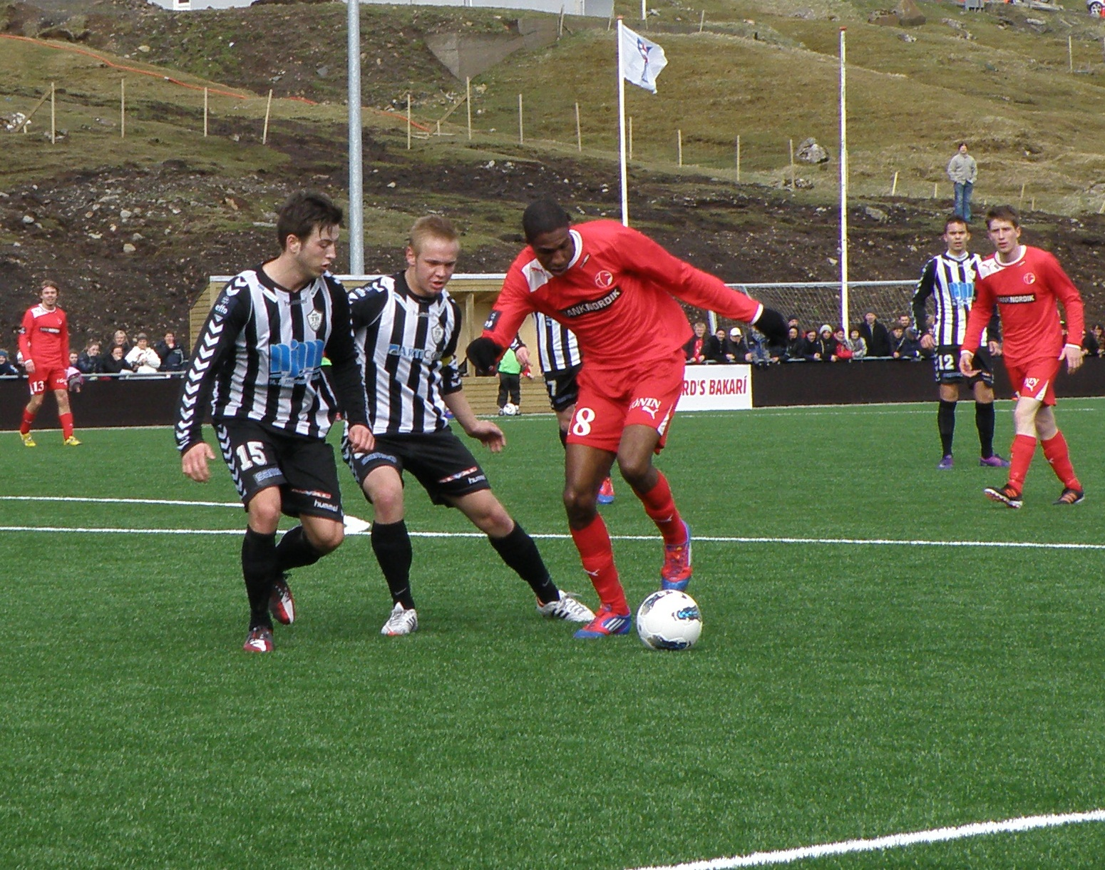 Faroese football (soccer) match in the men's best division, which currently (2012) is called Effodeildin. The player in red is Clayton Soares do Nascimento from Brazil, he has been playing football in the Faroe Islands since 2002, first with FC Vágar, then B71 Sandoy, 07 Vestur and finally with ÍF Fuglafjørður. He is the current (with four more rounds to go) the top goal scorers in the Faroe Islands with 18 goals. The two TB Tvøroyri players in the foreground on this photo are Hanus Mortensen and Martin Tausen. Føroyskt: Myndin er frá tí fyrsta fótbóltsdystinum í Effodeildini sum varð leiktur á nýggja vøllinum Við Stórá hjá TB hin 29. apríl 2012. Fremst á myndini síggjast Hanus Mortensen og Martin Tausen (TB) og Clayton Soares do Nascimento (ÍF). Nú tá fýra umfør eru eftir at spæla er Clayton høvuðs málskjútti í Effodeildini við 18 málum.